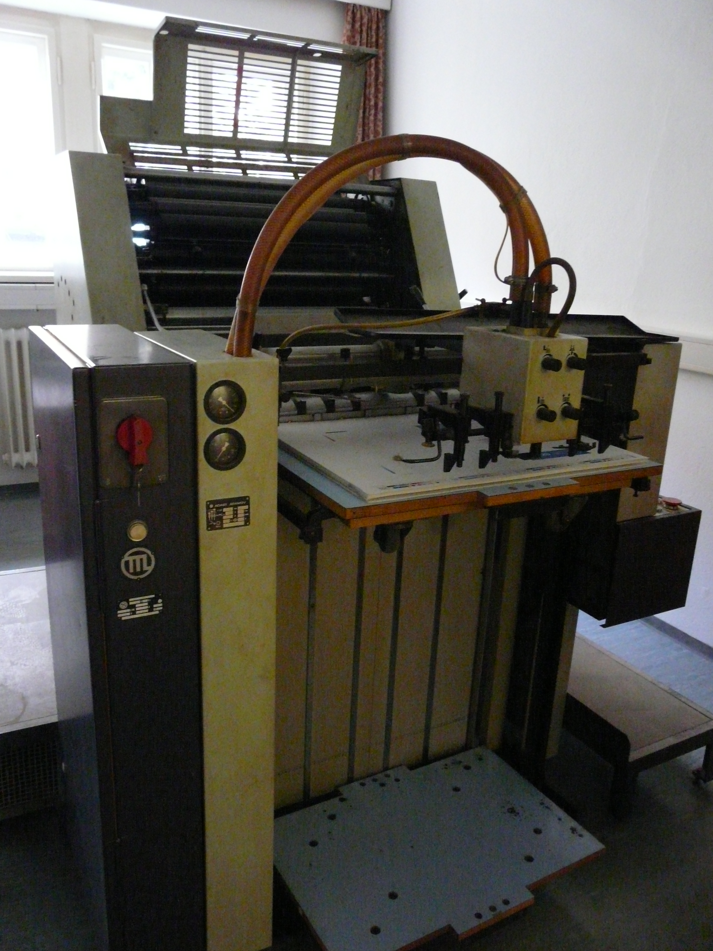 Offset printing press at the Cartographical Technical Facility of the Dresden University of Technology